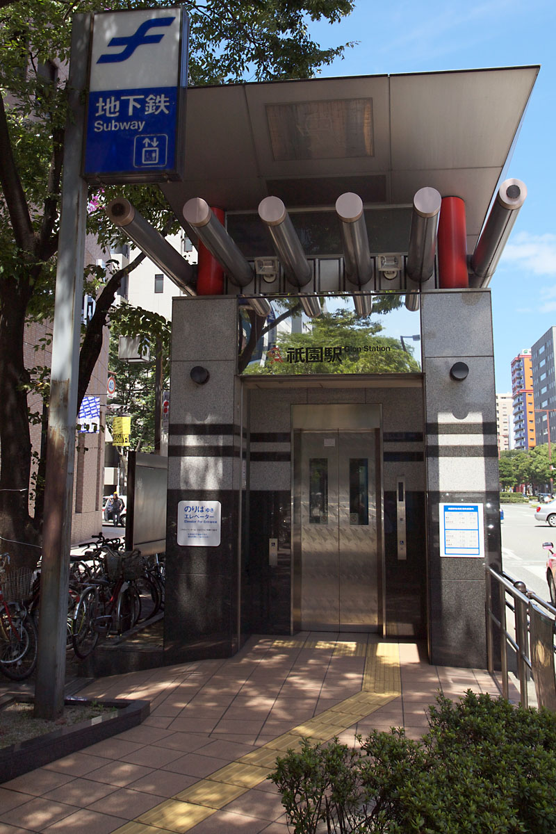 Undergound station "Gion", in Hakata-ku, Fukuoka city, Japan.